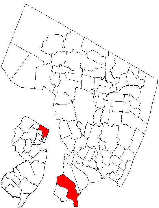 Map showing Lyndhurst within Bergen County, NJ.